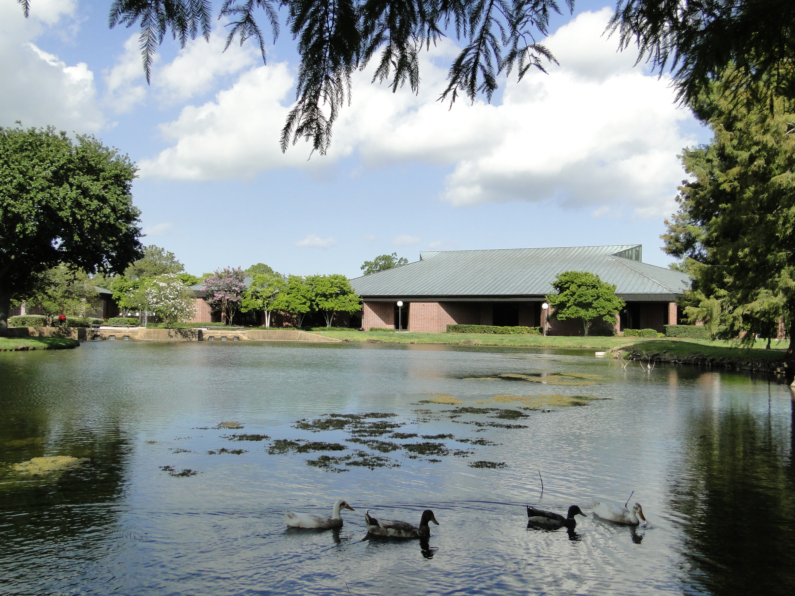 Duck pond at Lamar University near the John Gray Center